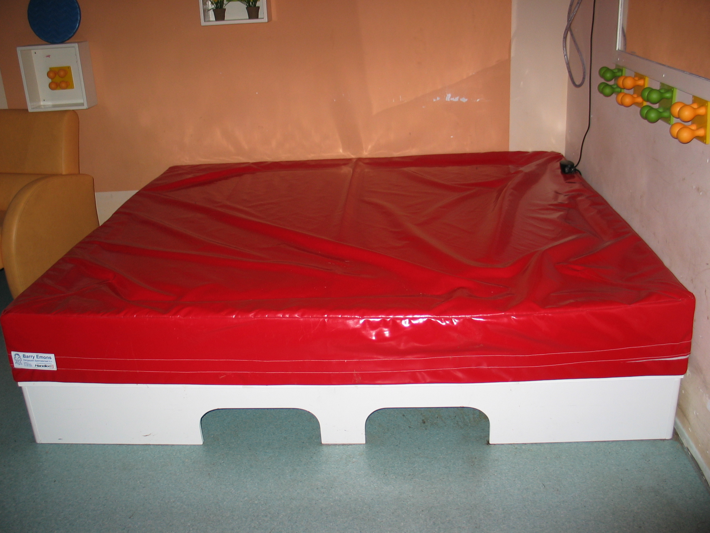 Waterbed as example used for snoezelen